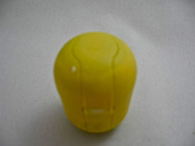 Kinder Surprise revised plastic shell design.